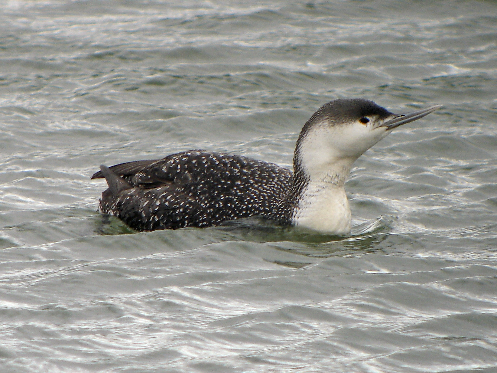 Red-throated Loon (Gavia stellata) - Photographed in Arcachon, France